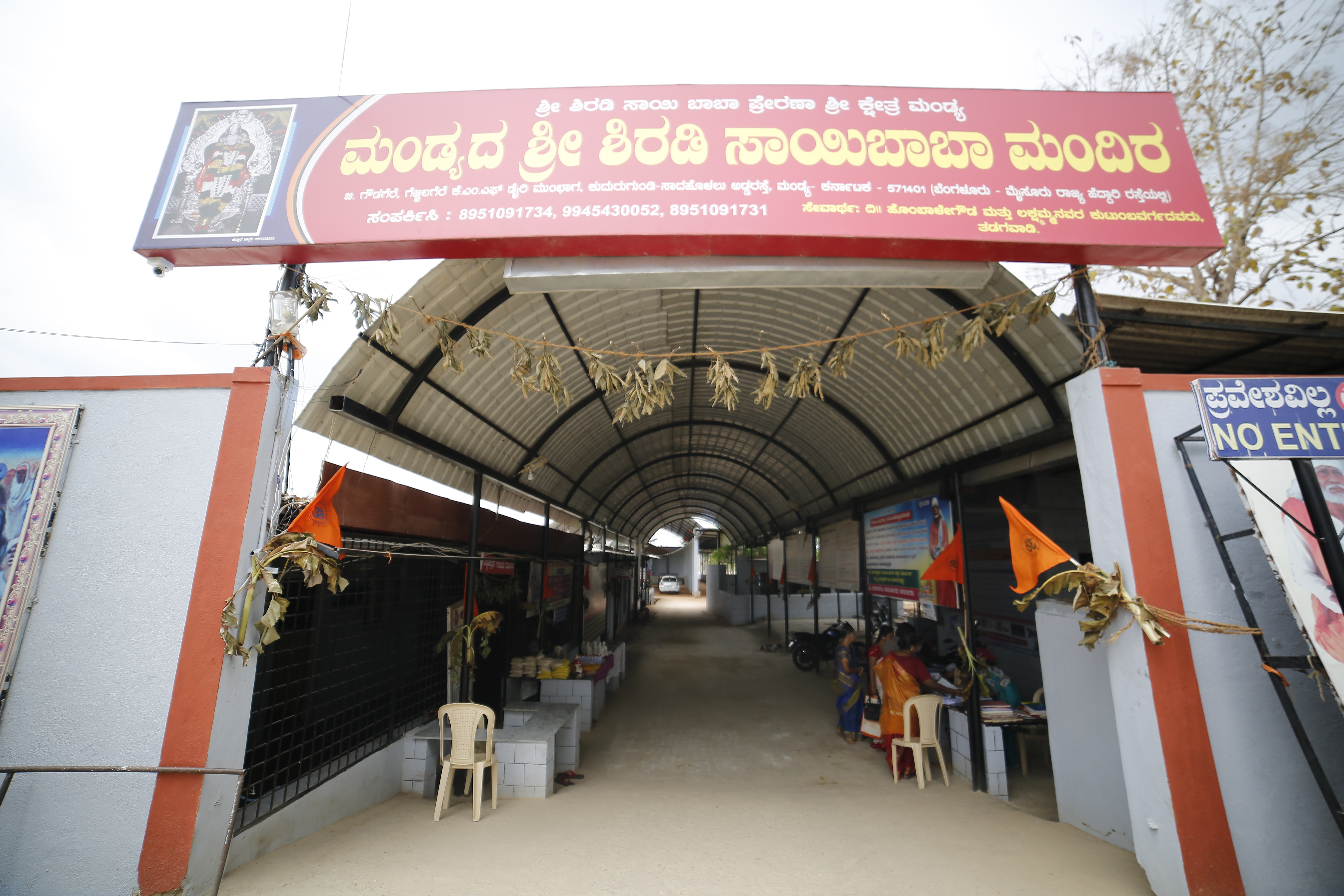 Shri Shiradi Sai Baba Inspiration Place , Mandya. “ Brief Introduction Of The Holy Place ” Sri Shiradi Sai Baba Inspiration Place , Mandya. “ Brief Introduction Of The Holy Place ” This Holy place is the inspiration place of shri shiradi sai baba. It is our belief that this temple being constructed with the lord Sri shiradi sai baba and its the Second holiest place in India.